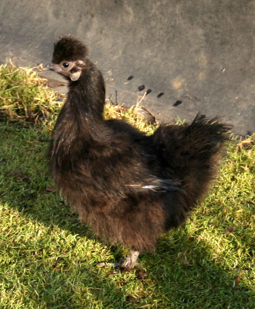 silkie one of chicken breeds